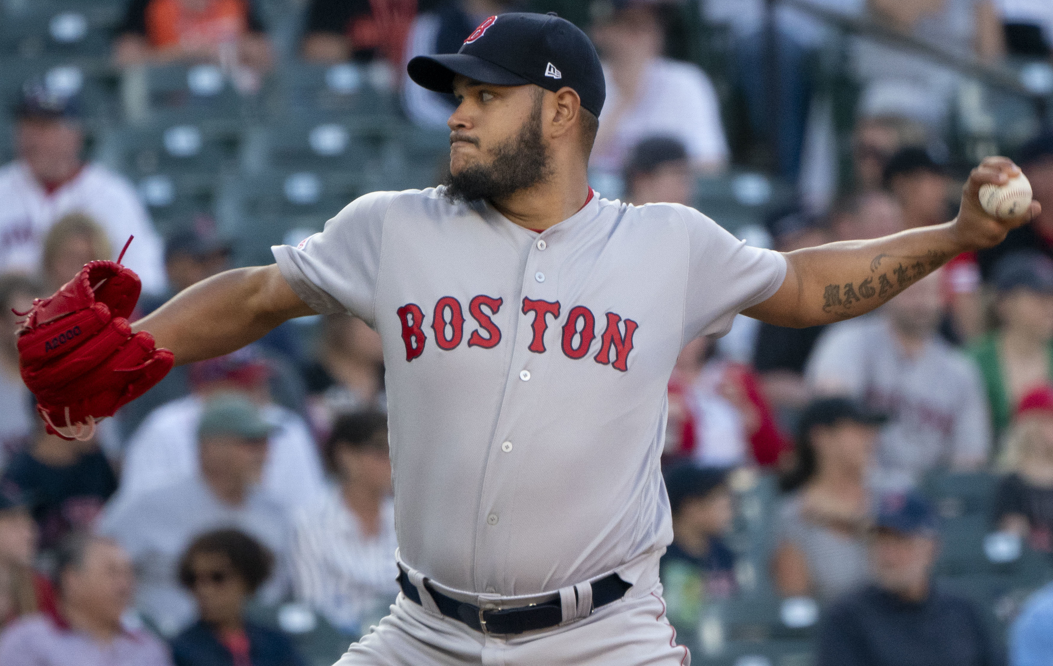 Eduardo Rodriguez of the Boston Red Sox pitches in a game against the Baltimore Orioles at Oriole Park at Camden Yards on June 14, 2019 in Baltimore, Maryland.